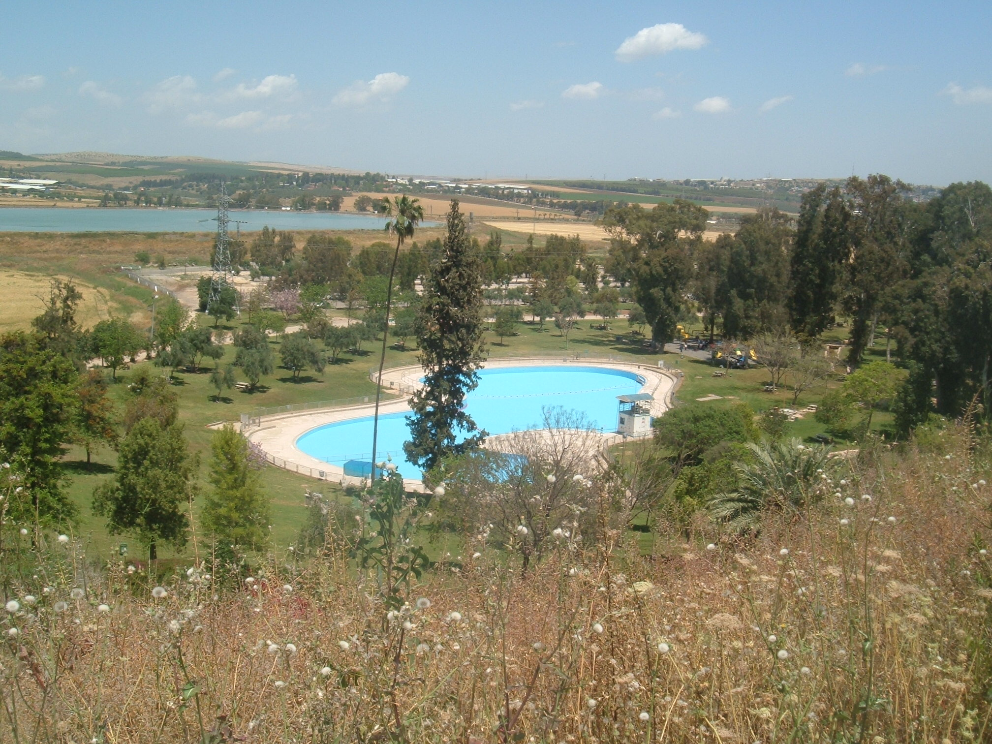 general view of maayan harod national garden in Israel מראה כללי של הגן הלאומי מעיין חרוד, כפי שנראה מקבר יהושוע חנקין